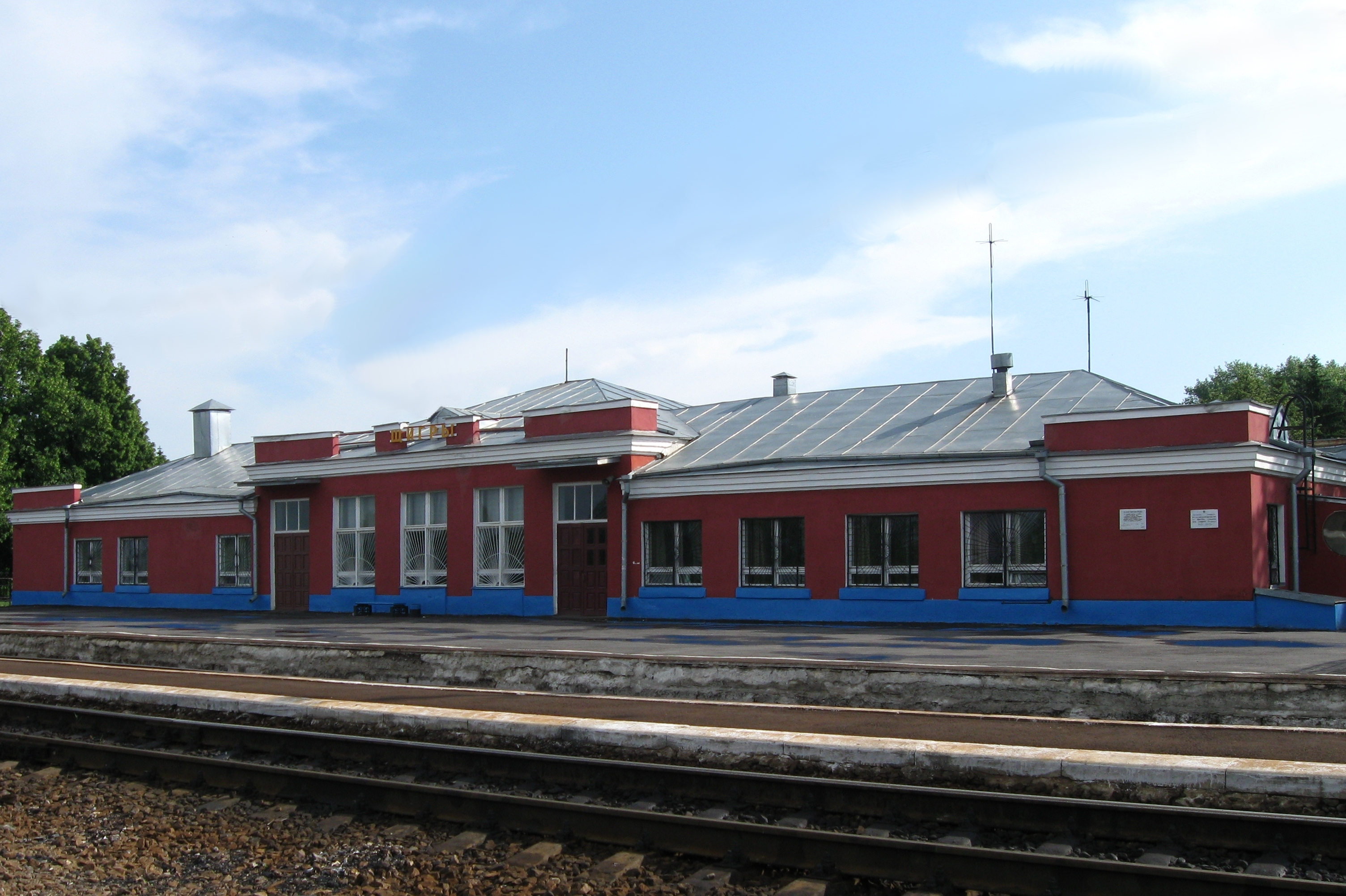 Shchigry Train Station. View from the west side